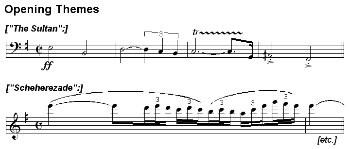 Opening 2 notated themes from Rimsky-Korsakov's Scheherazade.